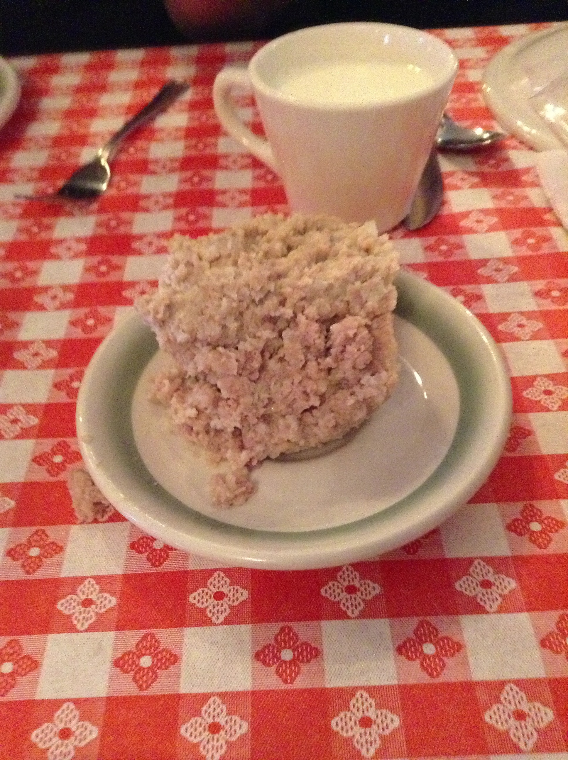 Homemade cretons on a plate.